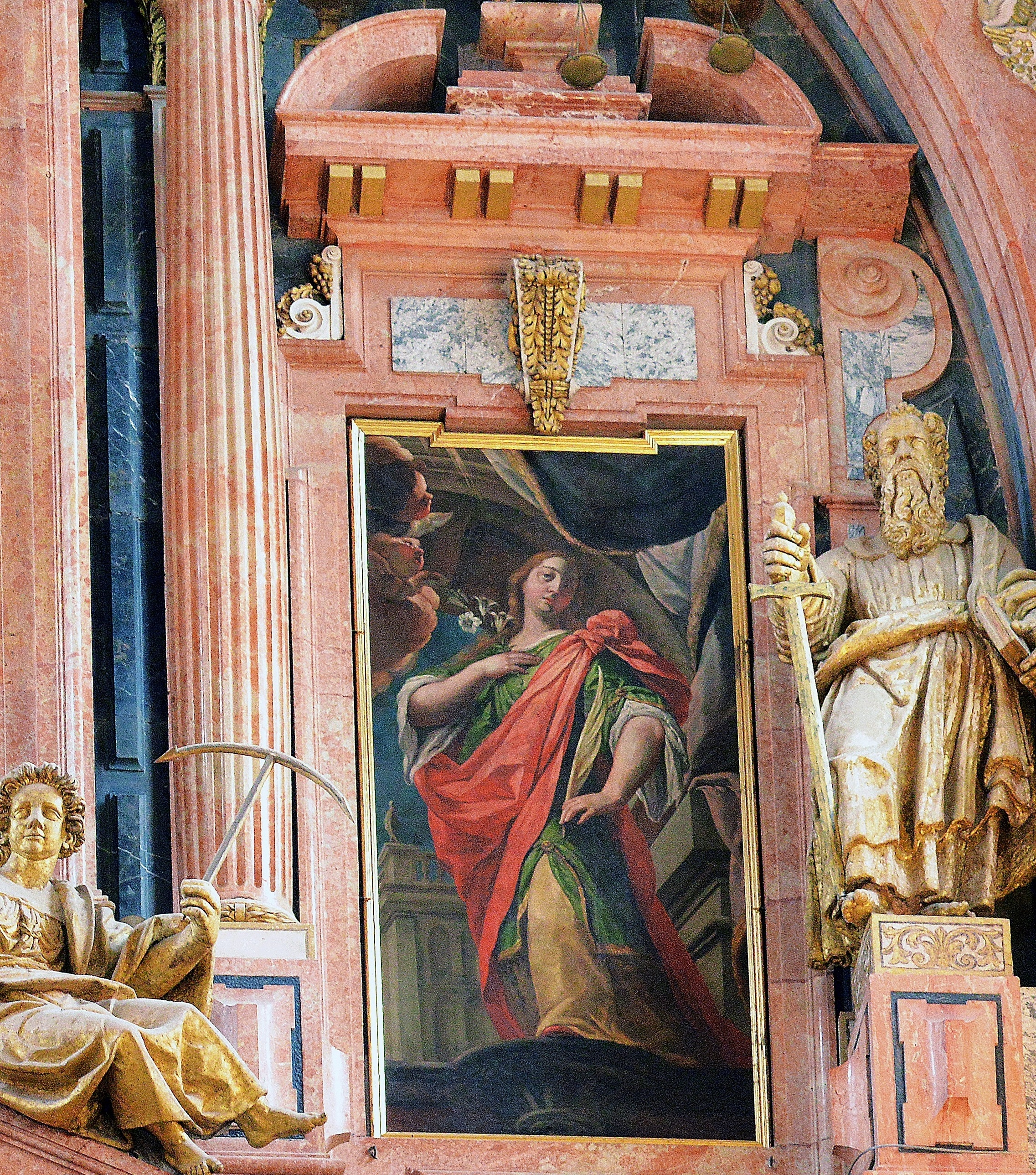 Cordoba Cathedral, main altar, painting of Santa Flora